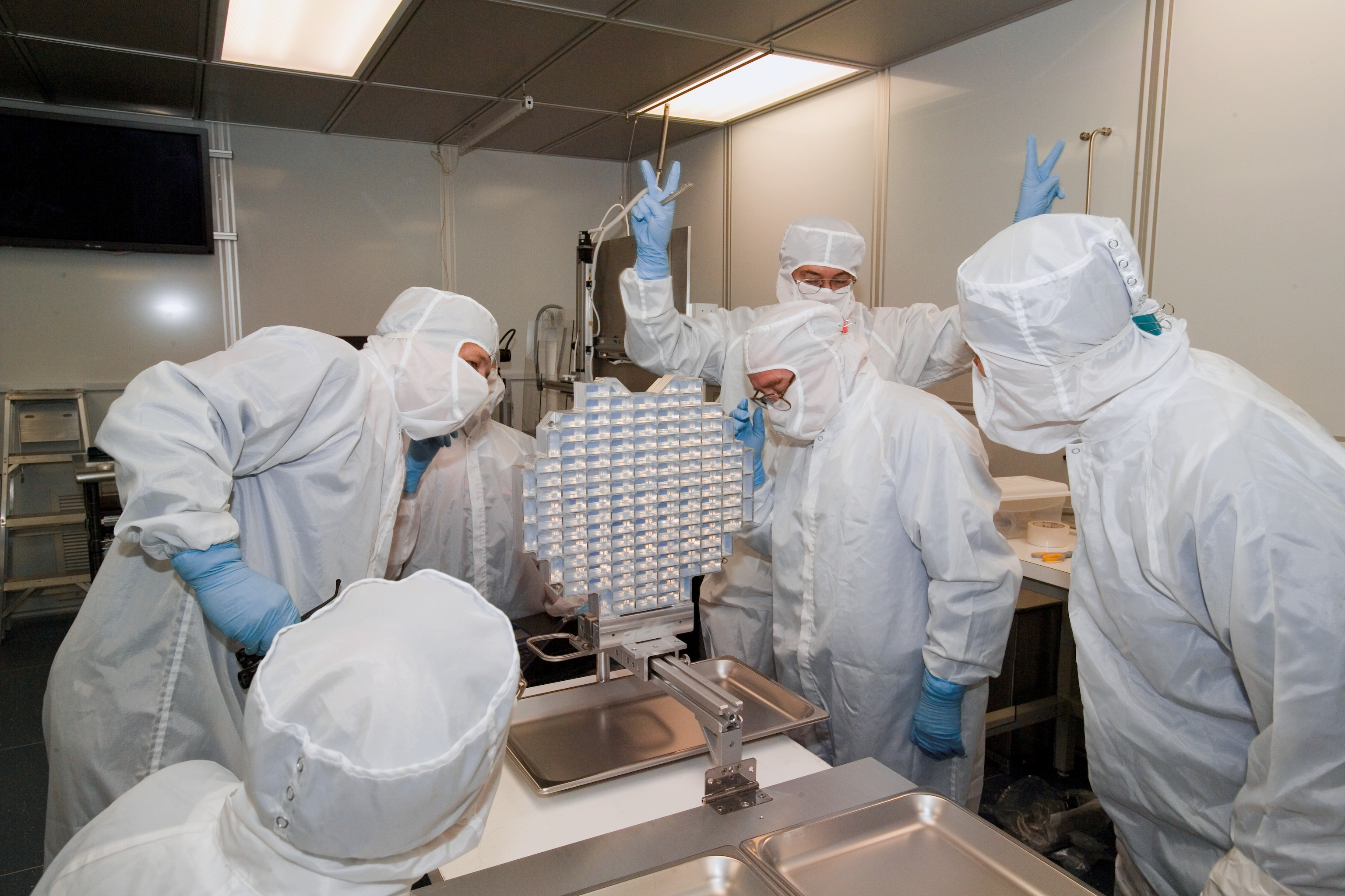 Donald Brownlee, principal investigator from the University of Washington, flashes victory signs to celebrate the successful arrival of Stardust material at the Johnson Space Center in Texas. Also pictured, left to right, are Thomas See, Lindsay Keller, Mike Zolensky, and Friedrich Horz, all of the space center, and Peter Tsou of the Jet Propulsion Laboratory.